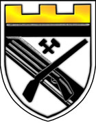 Internal coat of arms of the Bundeswehr (Armed Forces of the Federal Republic of Germany). → Remarks on naming and categorization scheme